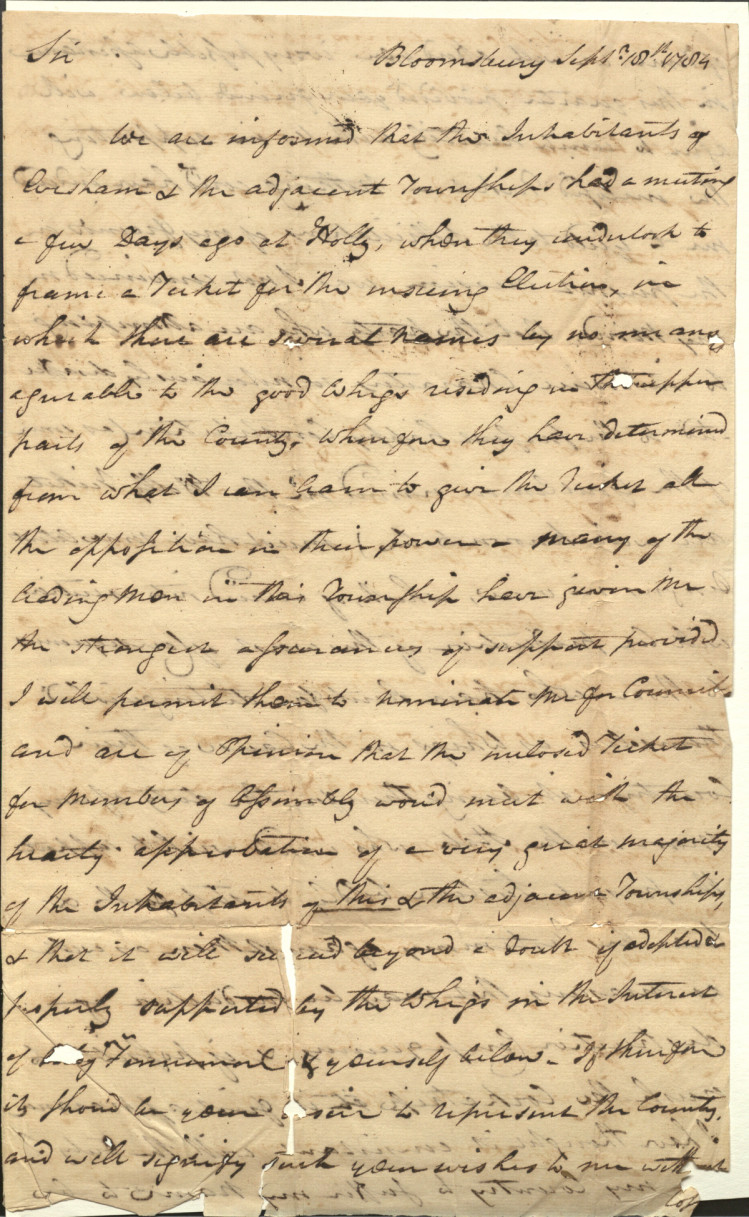 Correspondence from John Cox to Shreve on September 18, 1784. Sent from Bloomsbury.